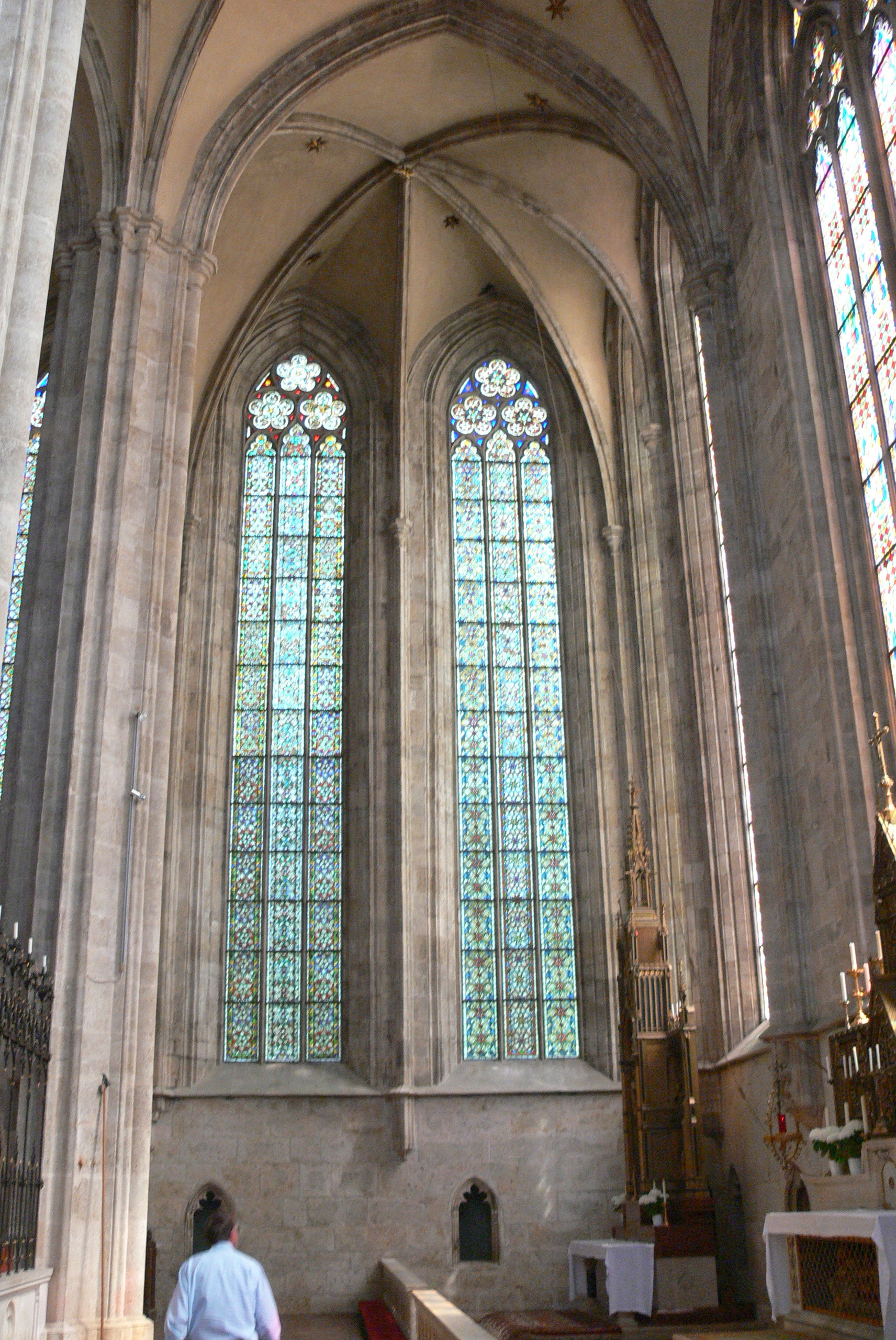 Heiligenkreuz abbey ( Lower Austria ). Monastery church: Gothic choir ( 1290s ).